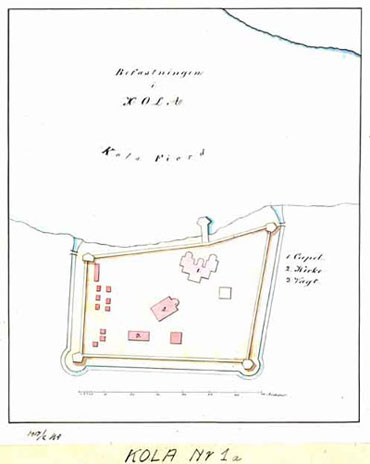 Plan of Kola Ostrog between 1706 and 1780 from Military Archive of Sweden, Stockholm